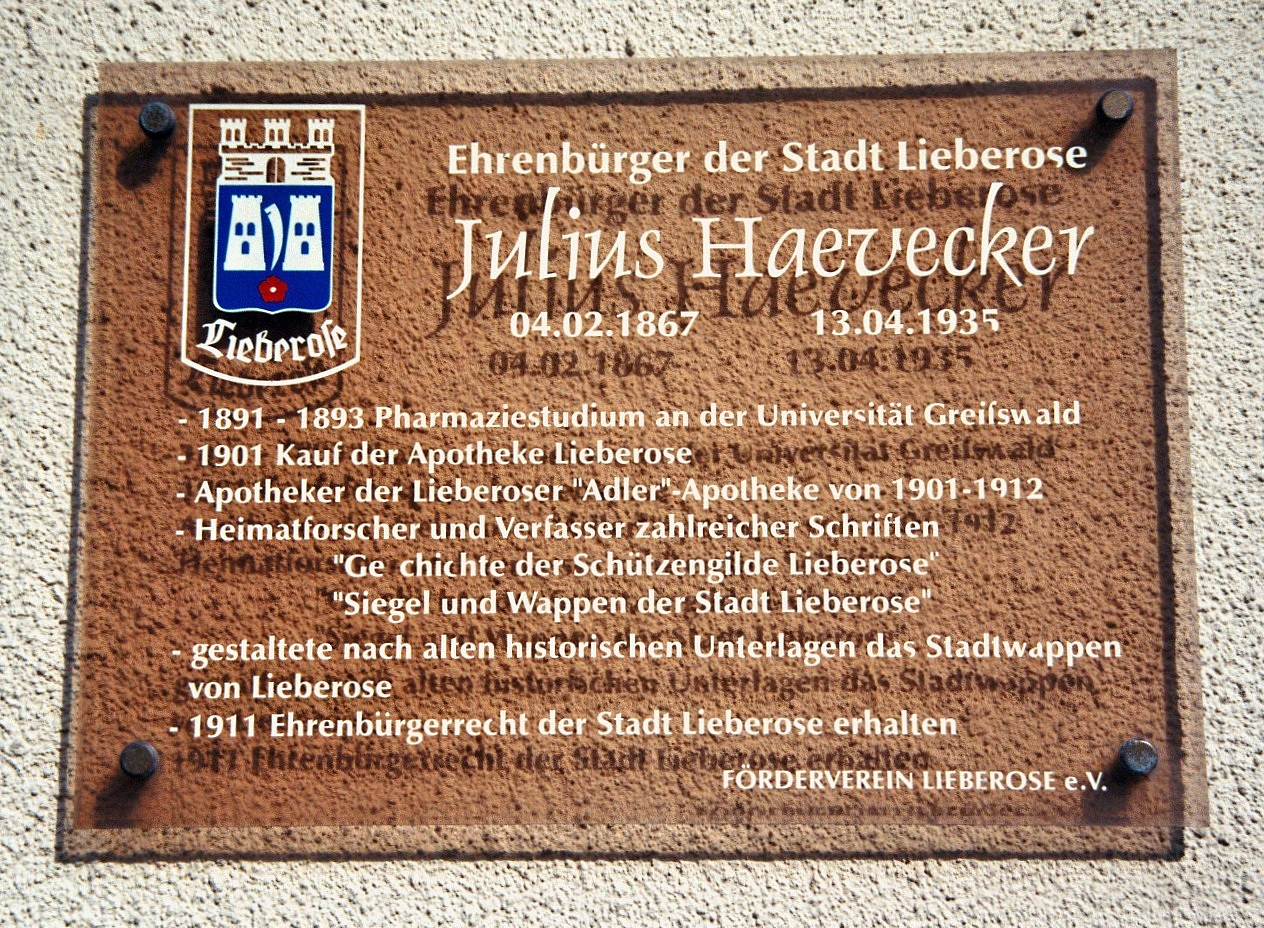 Memorial plaque remembering Julius Haevecker (1867-1935) at the Adler-Apotheke, a pharmacy building with a long tradition, in Lieberose, Landkreis Dahme-Spreewald, Brandenburg, Germany.